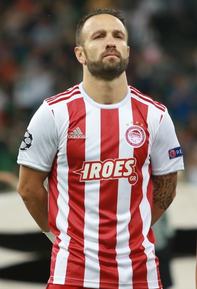 Mathieu Valbuena with Olympiacos FC before the Champions League qualifying game against FC Krasnodar.